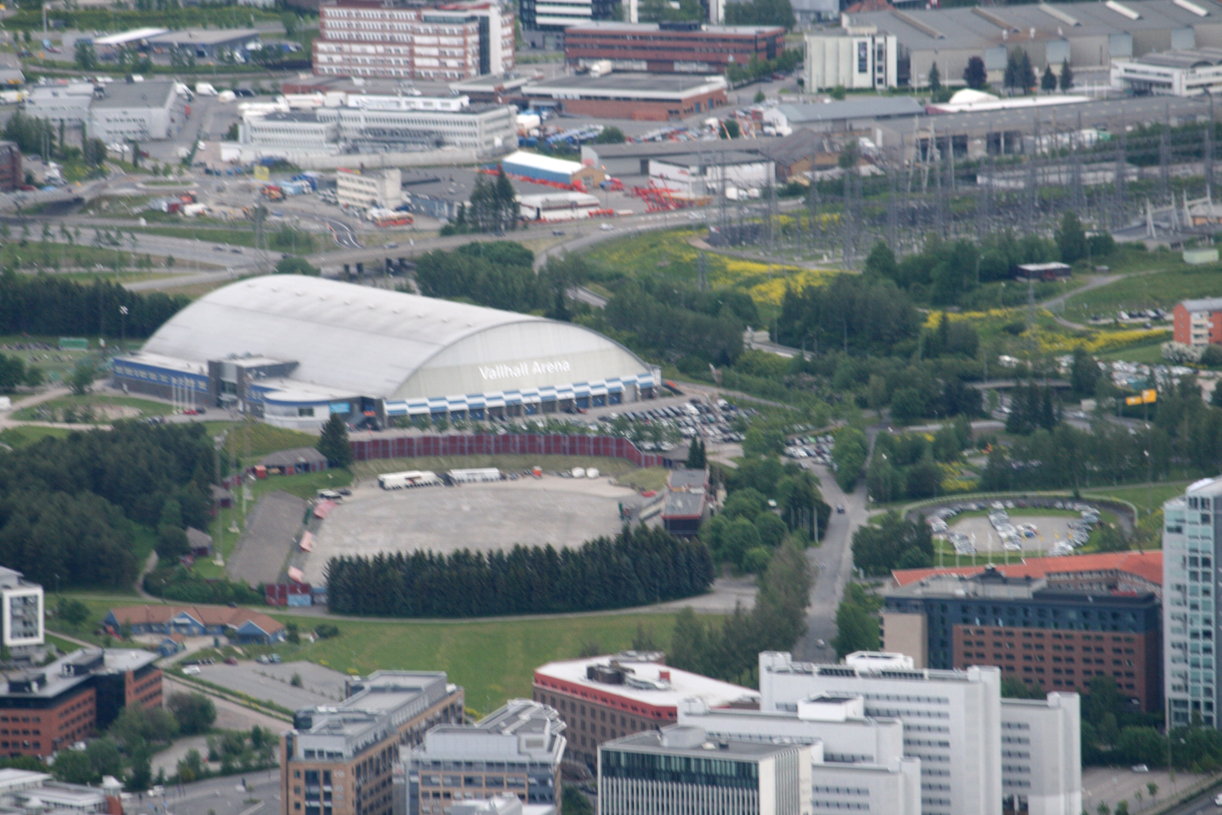 Aerial photograph from June 14th, 2015.